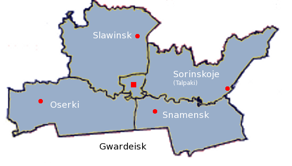 The administrational division of the Gvardeysky District in German transcription